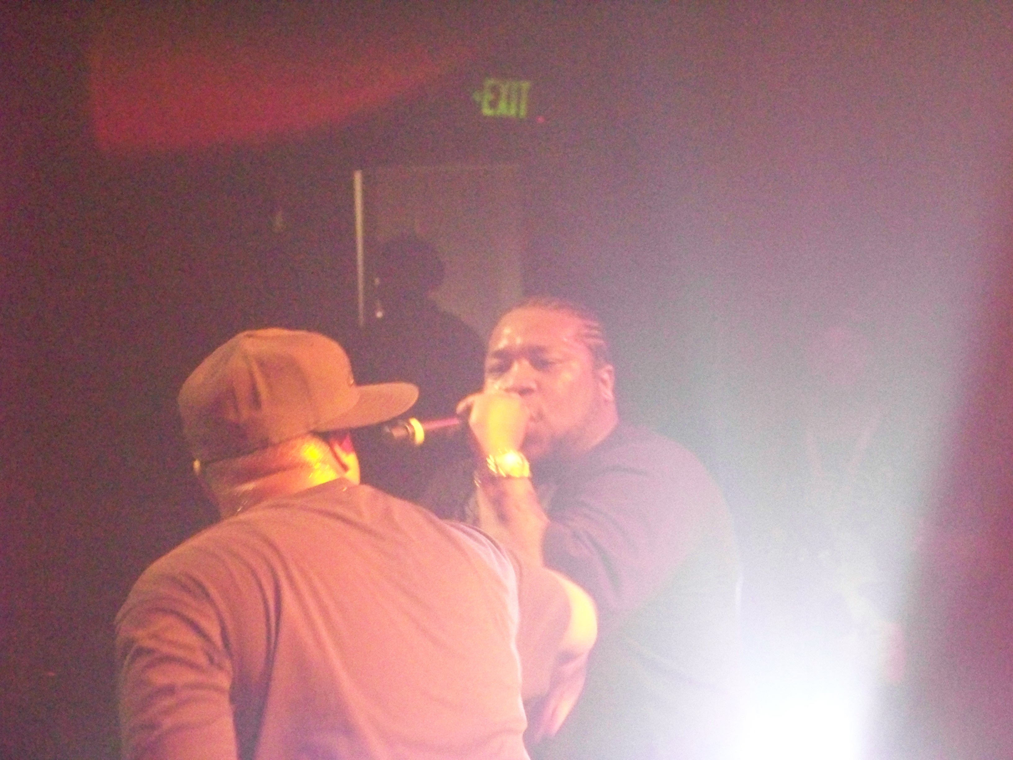 Hip hop group Little Brother performing in Atlanta, Georgia.